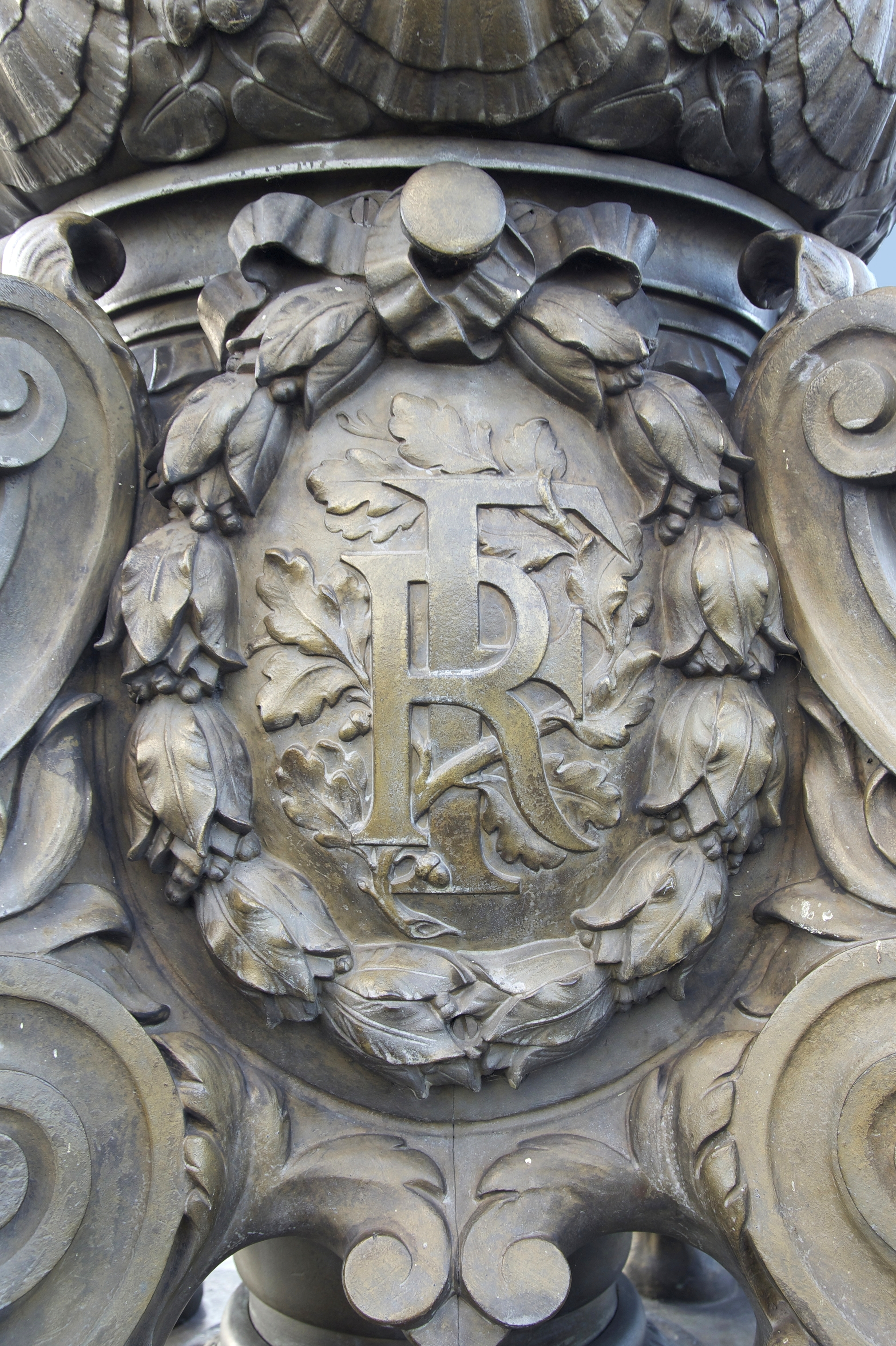 "RF", French Republic, pedestal of a street lamp on the Pont Alexandre III in Paris.